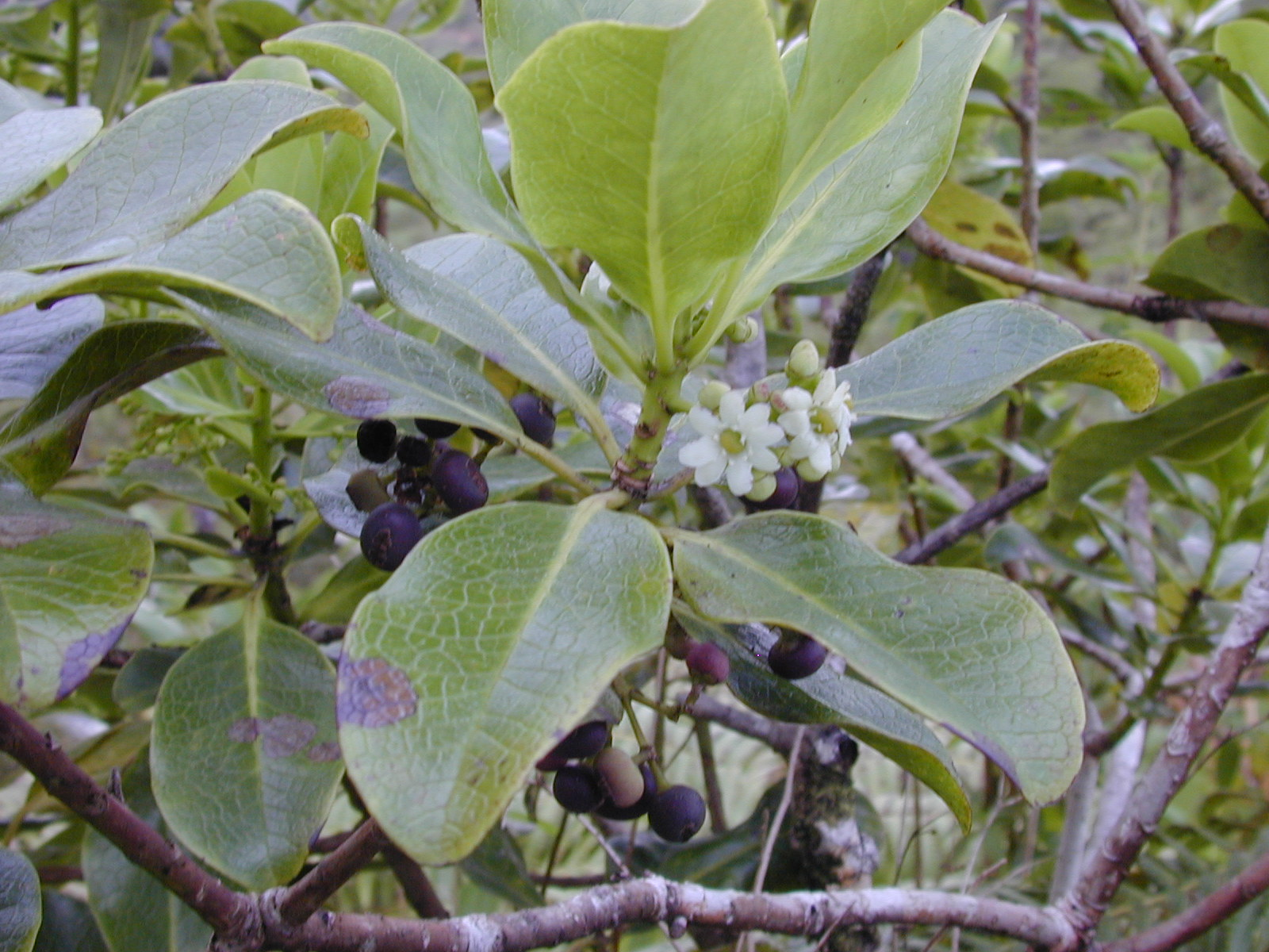 Ilex anomala (flowers and fruits). Location: Maui, Waihee Ridge Trail